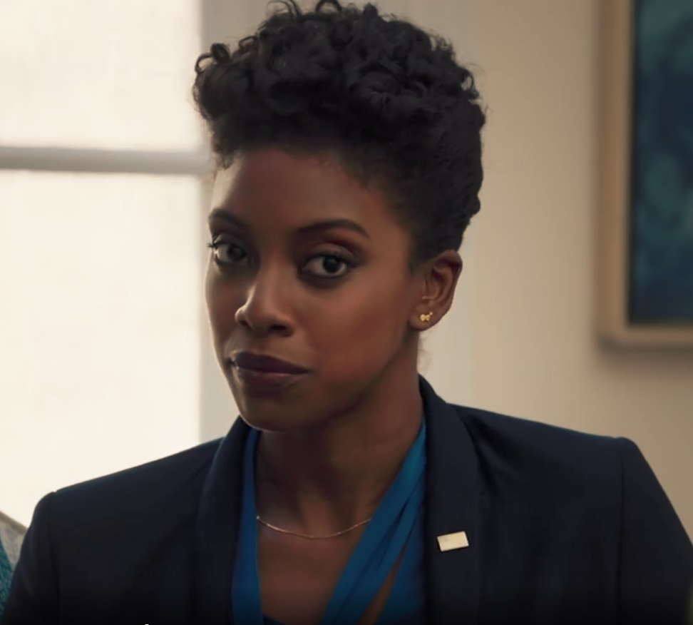 American actress Condola Rashād in a frame from the Showtime cable TV series Billions